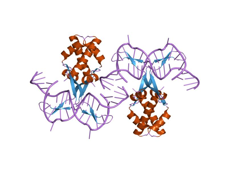 Cartoon representation of the molecular structure of protein registered with 1p51 code.